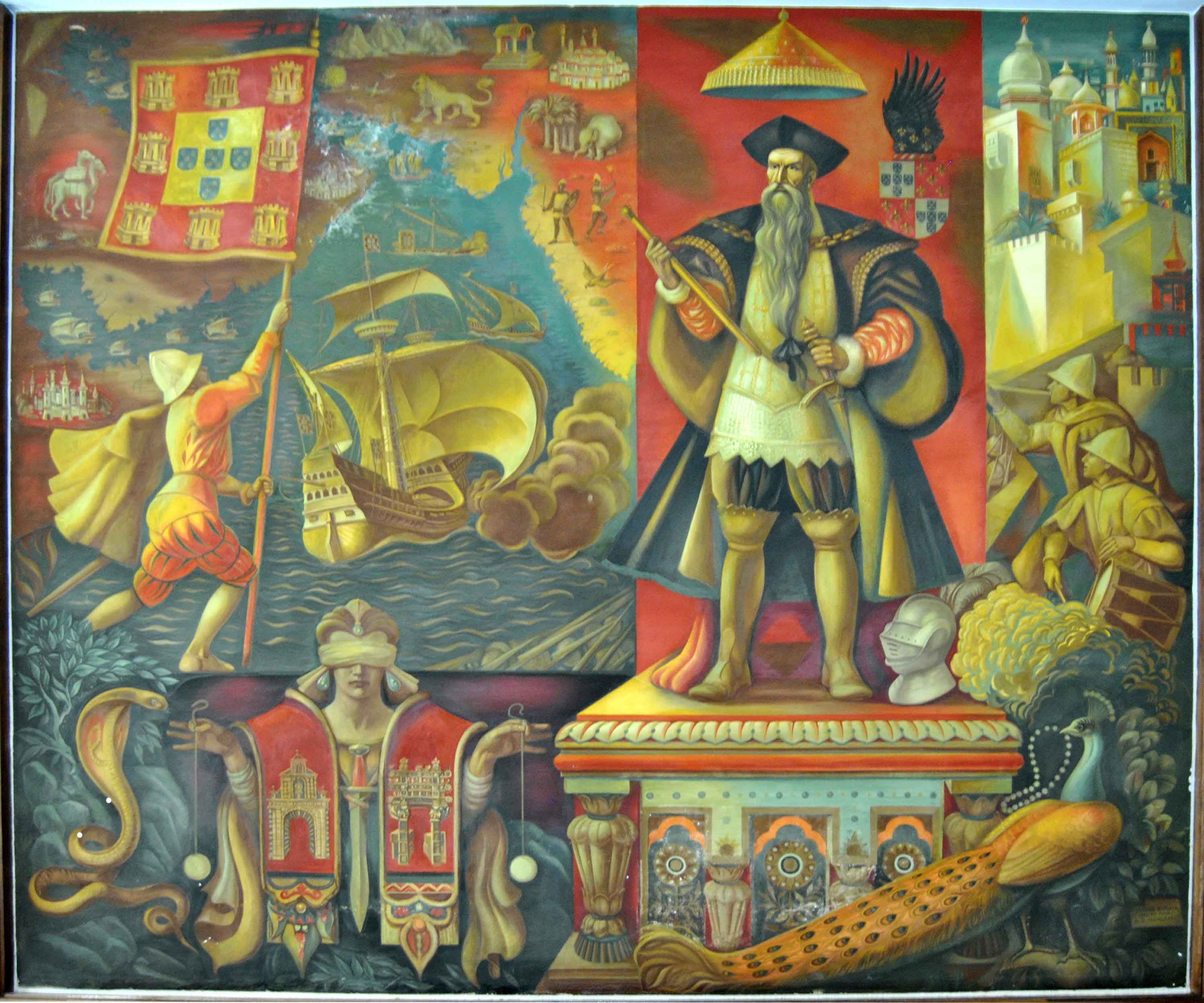 A 4m by 4,75m allegorical fresco of Afonso de Albuquerque by the Portuguese artist Jaime Martins Barata, made for the Palace of Justice of Vila Franca de Xira in Portugal in 1964